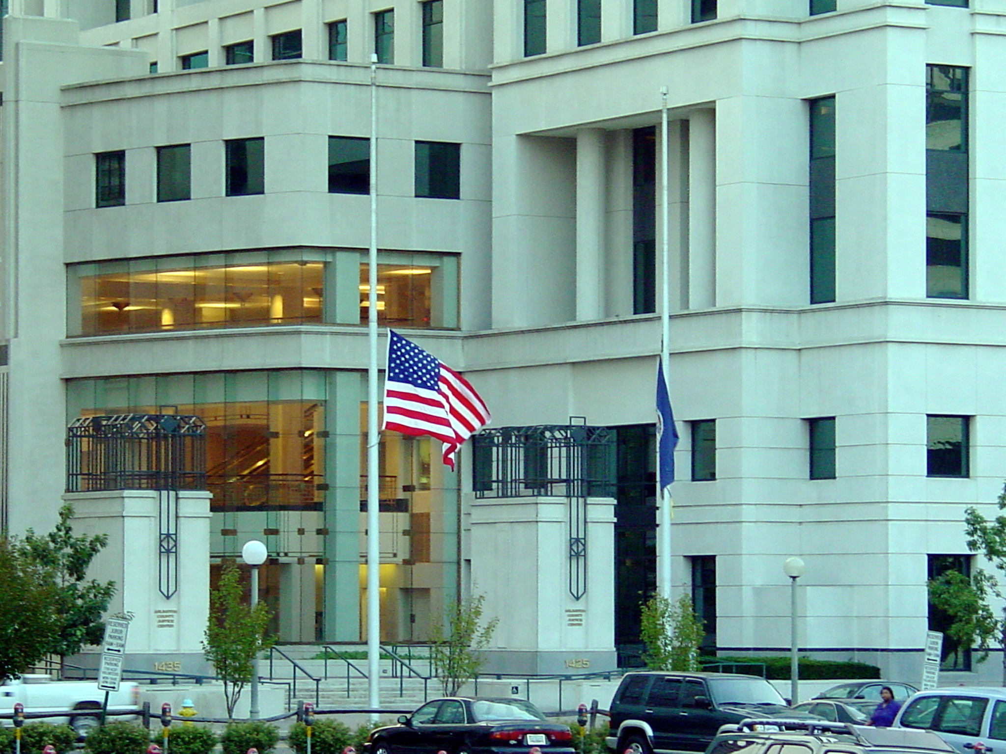 United States and Virginia flags flying at half-staff on 9/11/2002 at the Arlington County, Virginia, courthouse complex